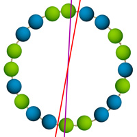 Illustration of a necklace to illustrate a question solved by Borsuk-Ulam theorem